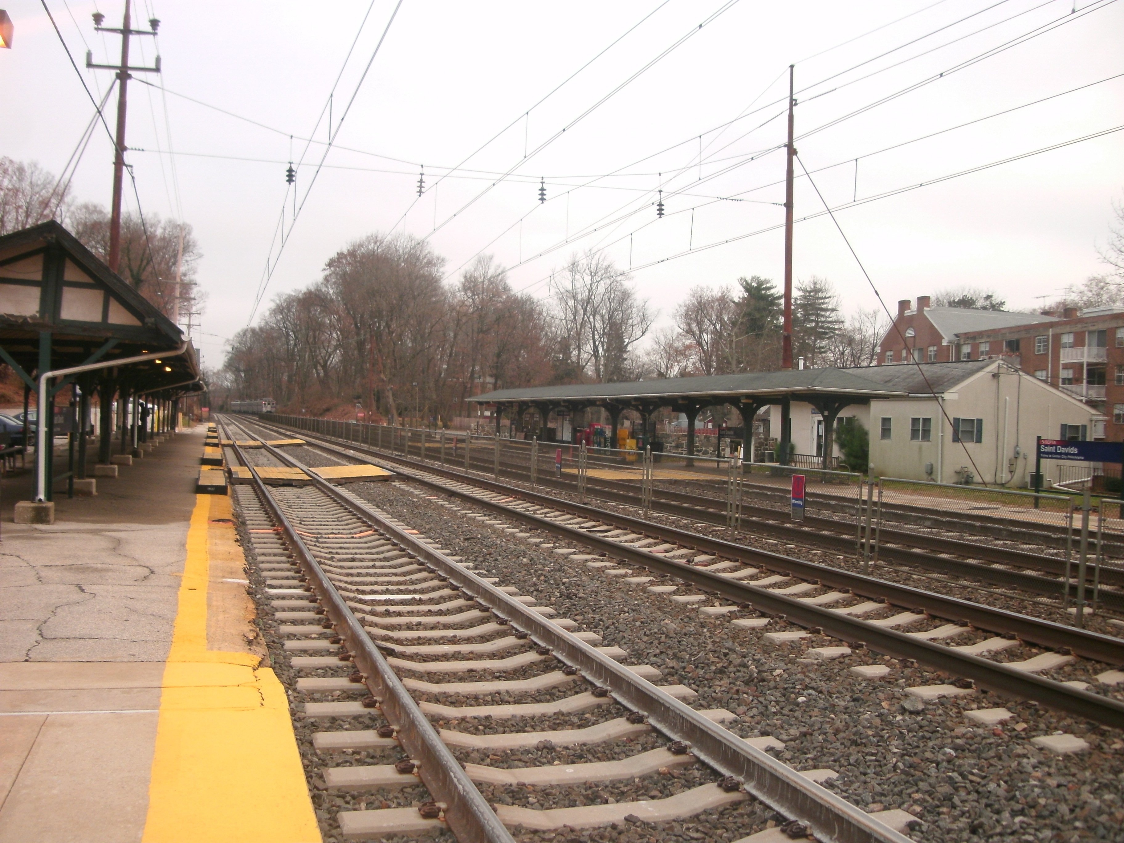 The Saint Davids SEPTA Regional Rail station in Saint Davids, Radnor Township, Pennsylvania.